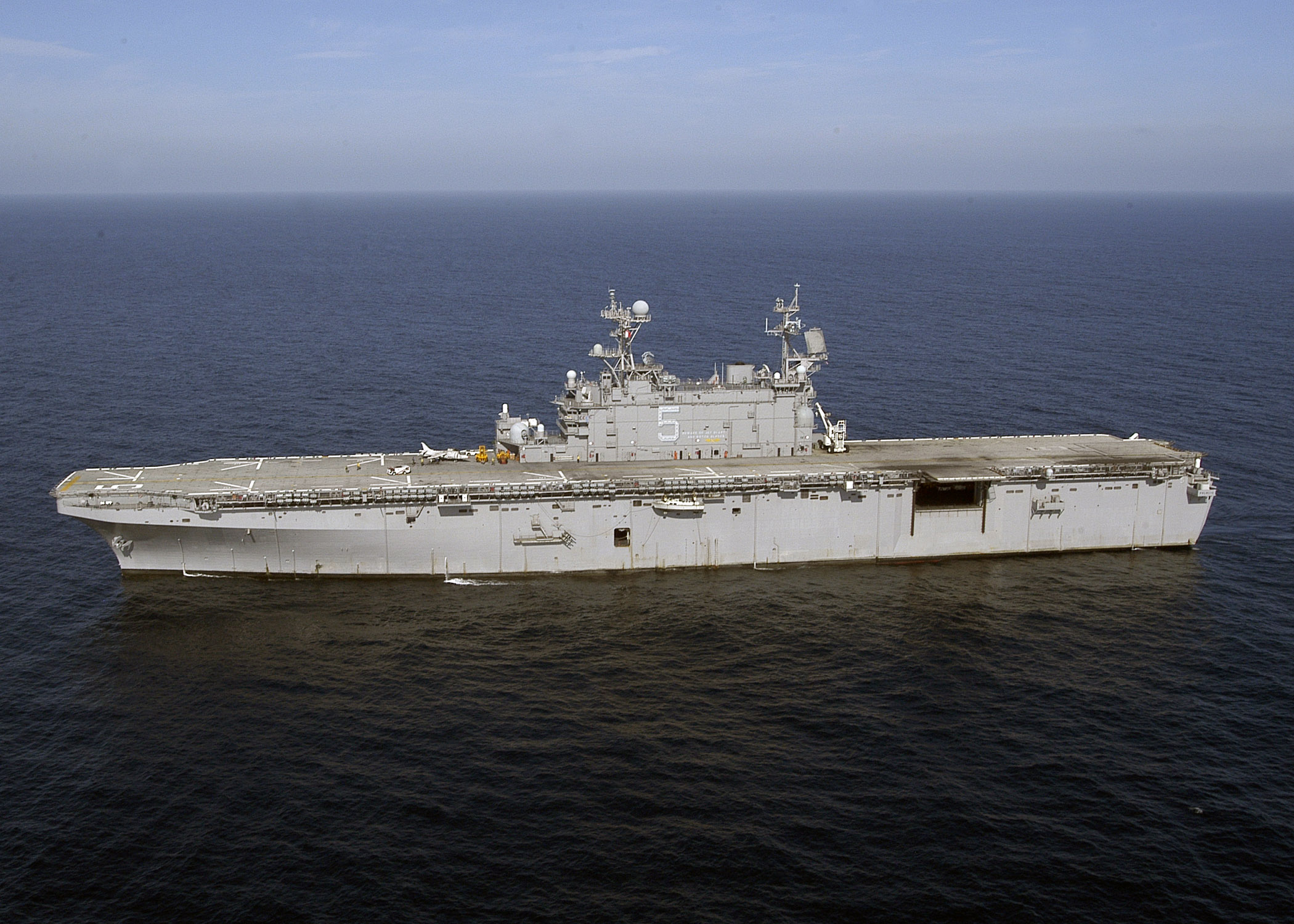 PACIFIC OCEAN (Oct. 30, 2007) - Amphibious assault ship USS Peleliu (LHA 5) conducts local operations near the Southern California coast. Peleliu is a member of Expeditionary Strike Group (ESG) 3, homeported in San Diego.